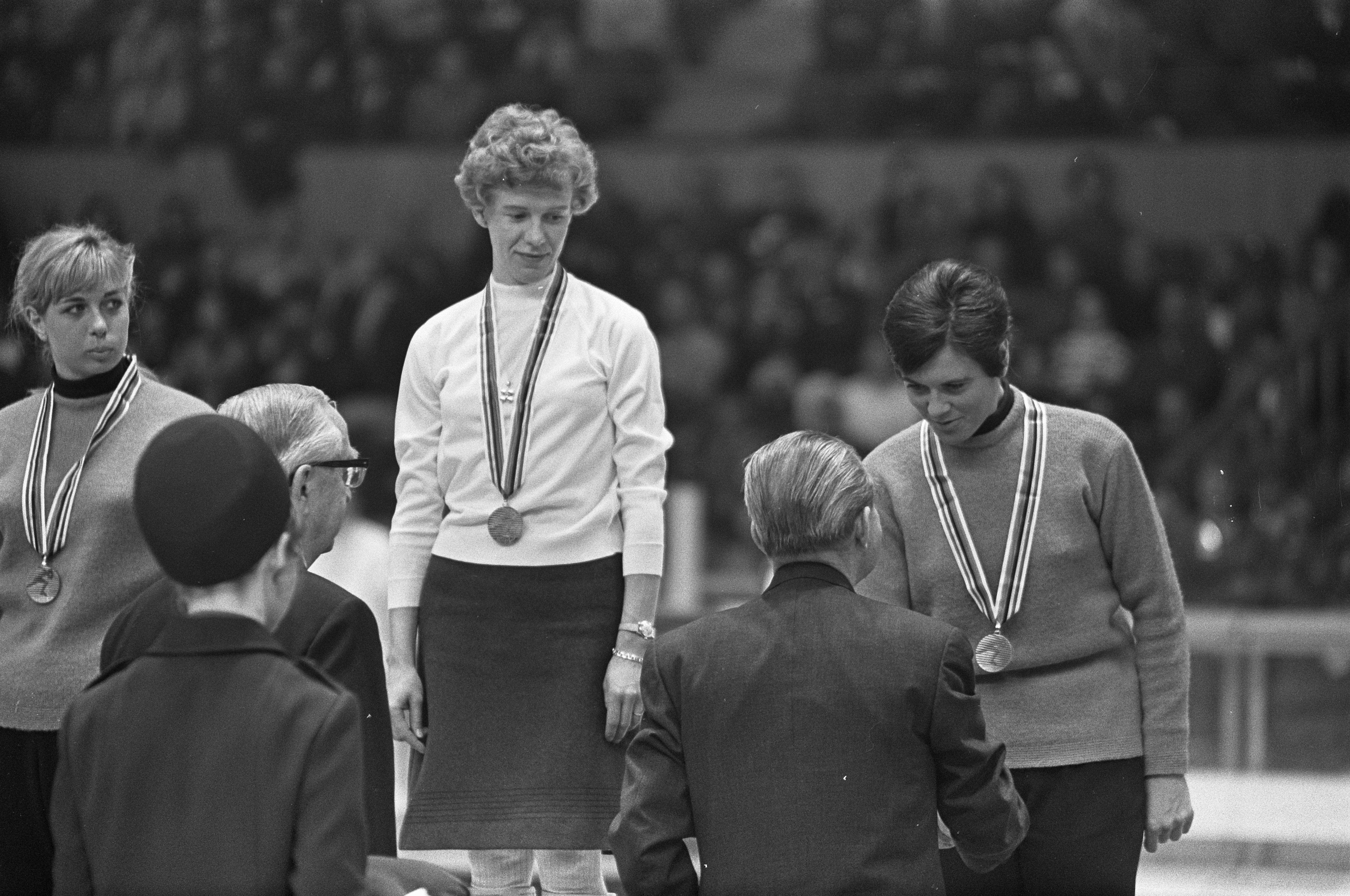 Speed skating at the 1968 Winter Olympics, 1500 m podium, left-right: Carry Geijssen, Kaija Mustonen, Stien Kaiser